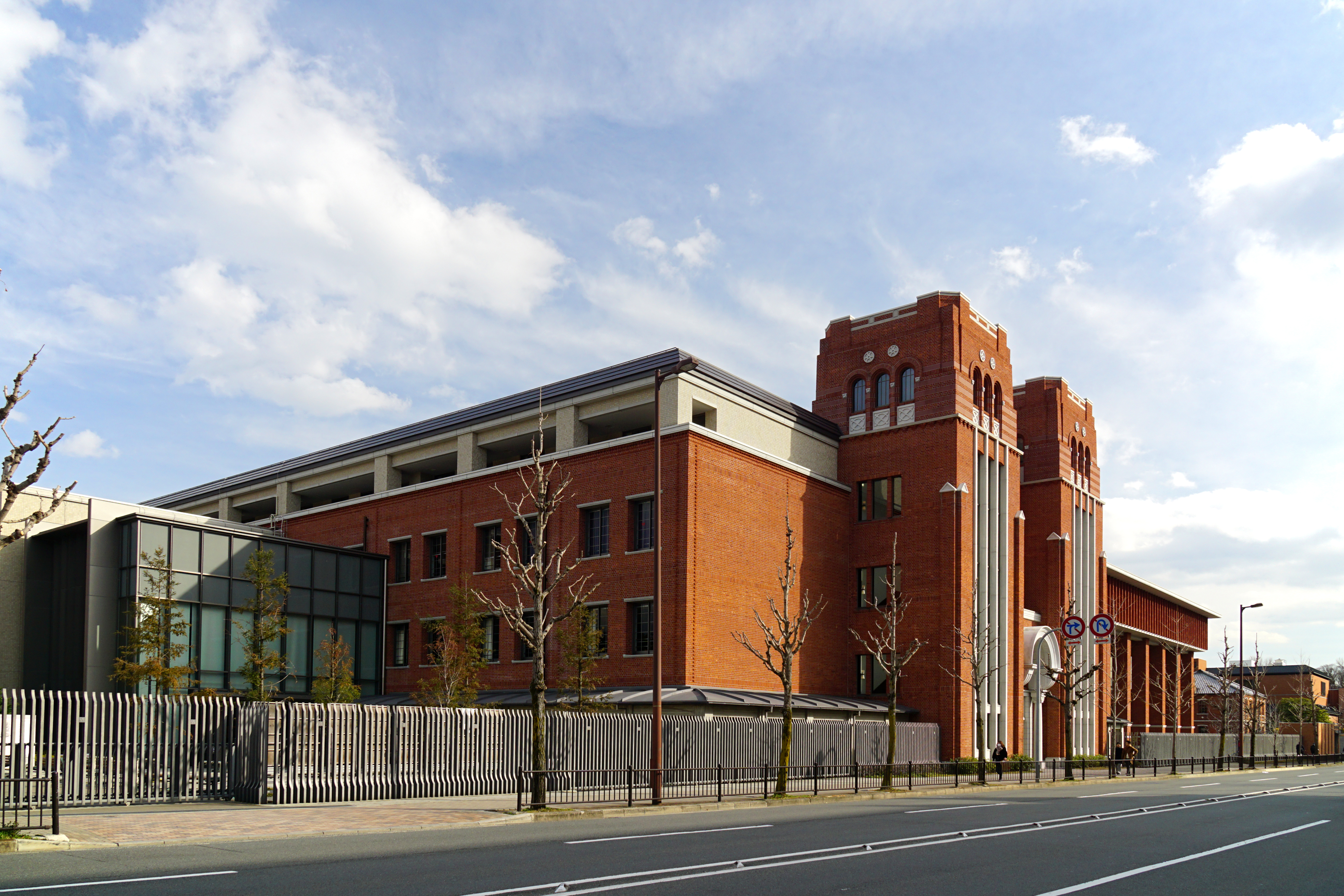 Doshisha University Imadegawa Campus in Kyoto, Kyoto prefecture, Japan